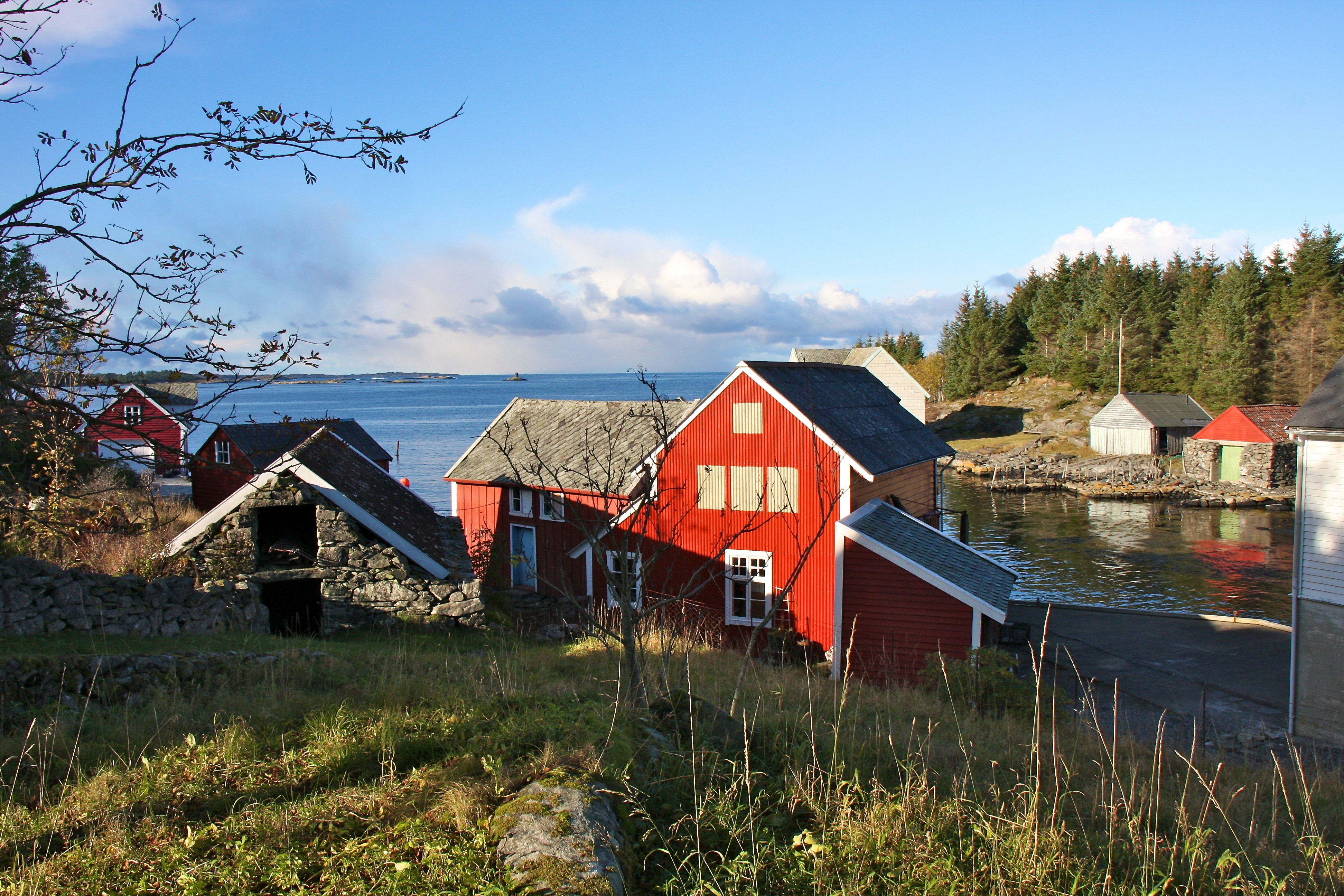 Gulen municipality, Norway.